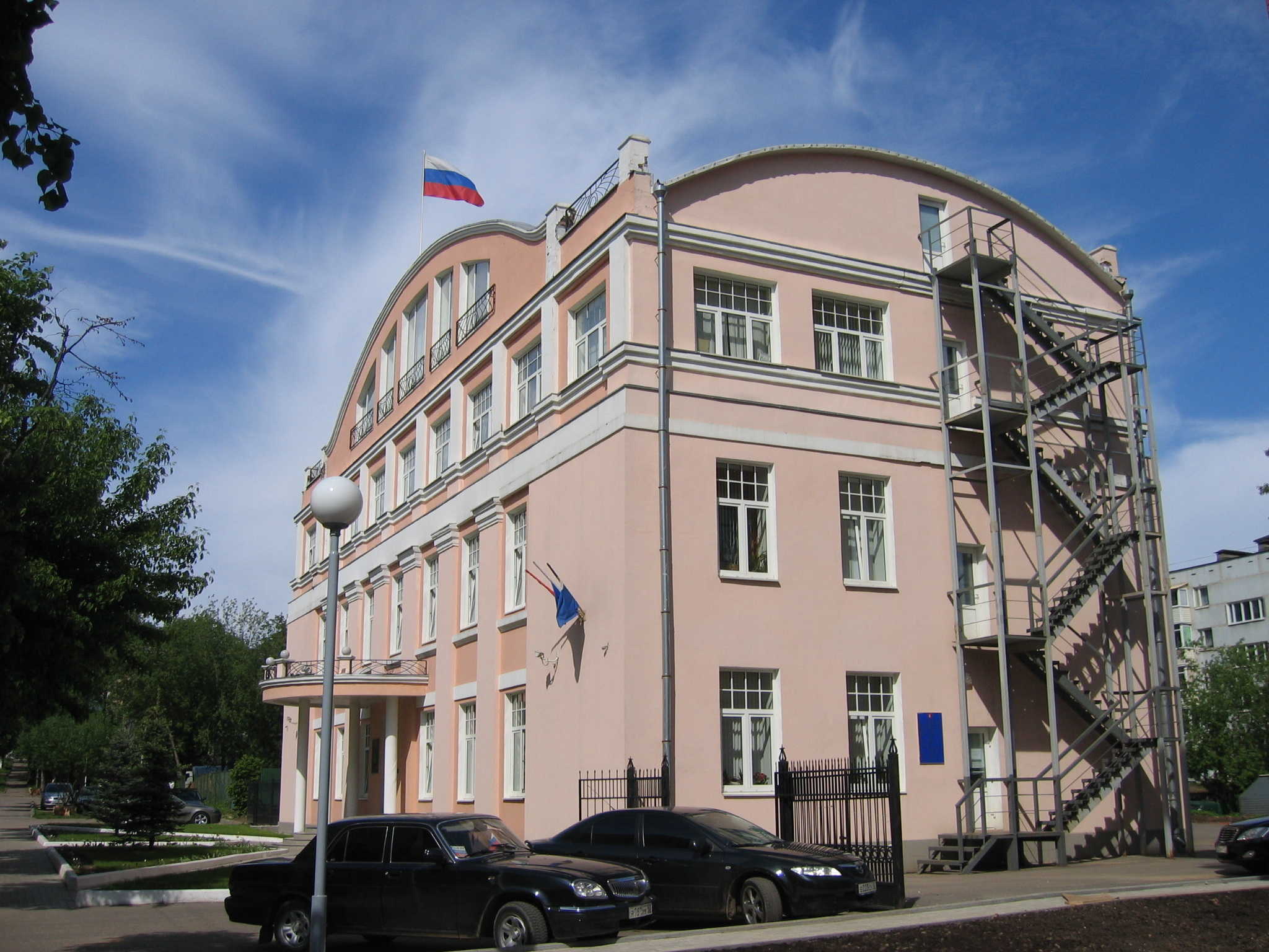 Administration building in Zvenigorod, Moscow Oblast